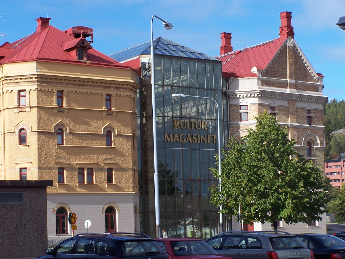 Kulturmagasinet, Sundsvall, Sweden